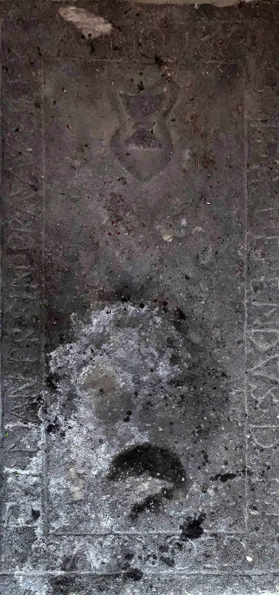 Gravestone Georg Fulmann in Klotten